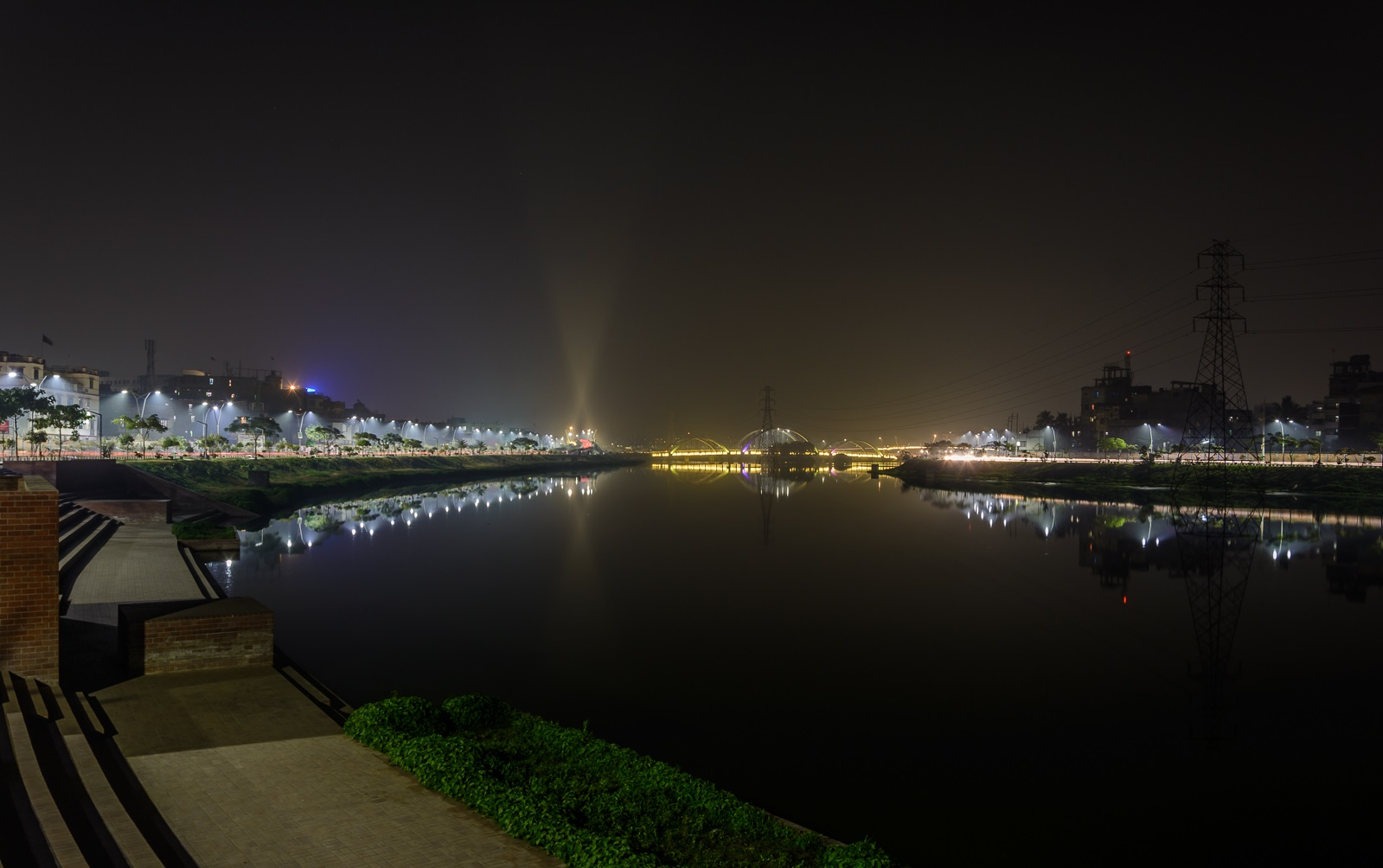 Hatirjheel at night, Dhaka, Bangladesh 2015.